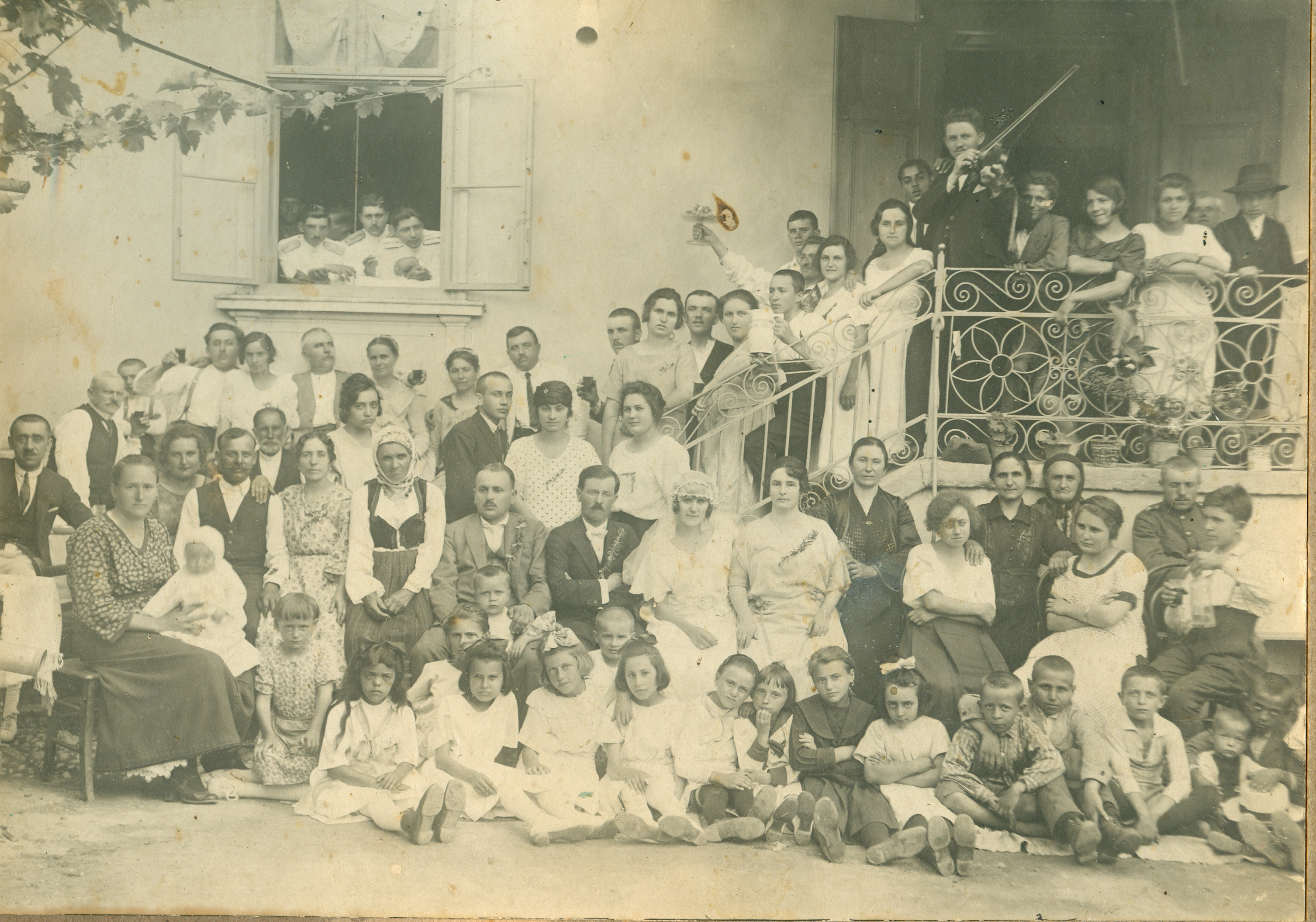 Wedding in Negotin thirties of the last century Srpski (latinica): Svadba u Negotinu tridesetih godina prošlog veka